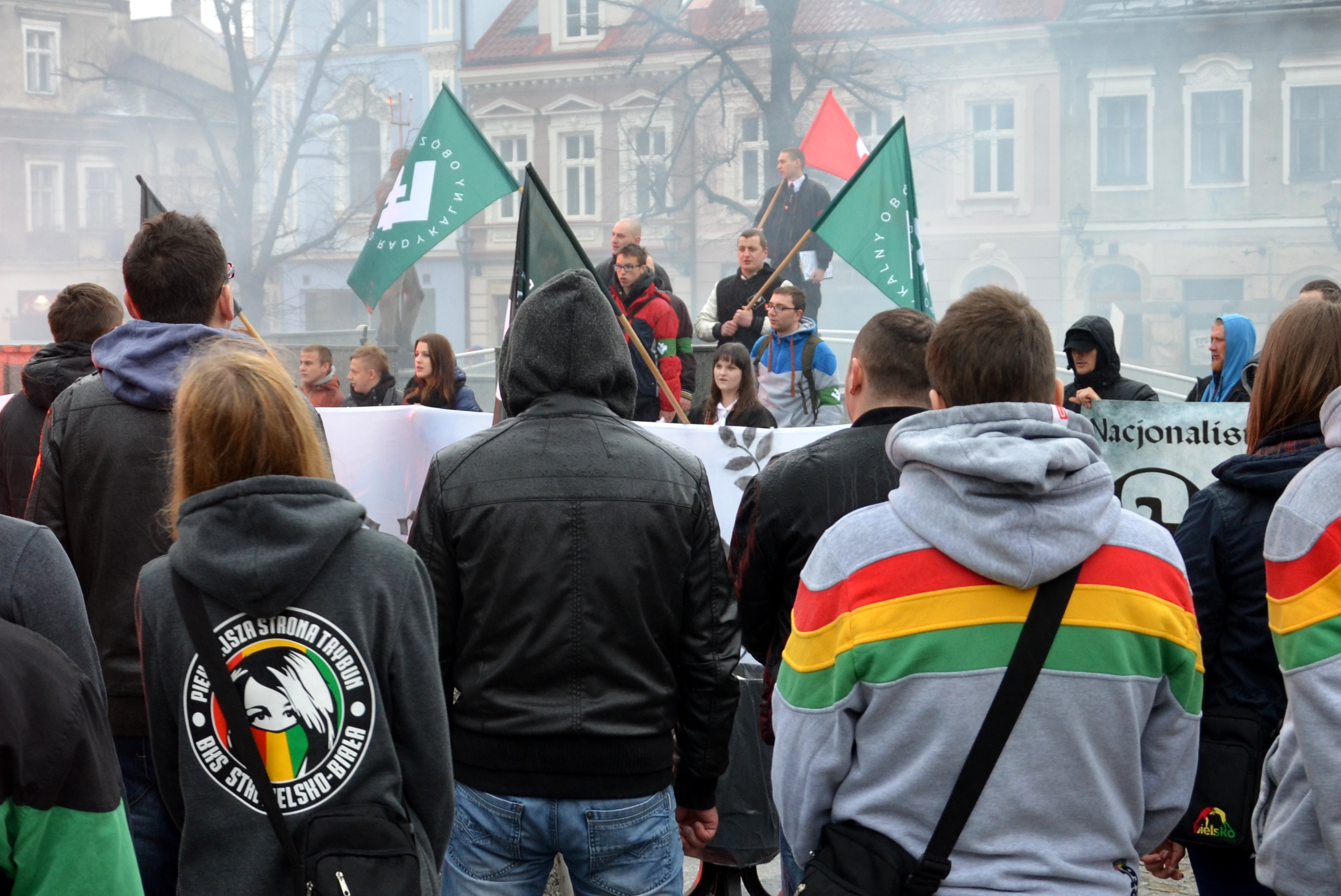 Die Islam-Zuwanderungsgegner in Polen